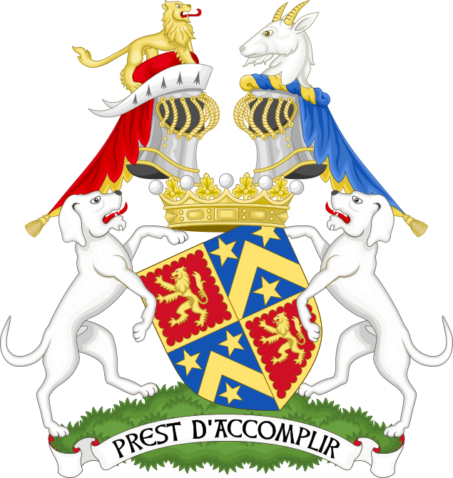 coat of arms of the earl of Shrewsbury - Premier earl of England Arms. Quarterly: 1st and 4th, Gules a Lion rampant within a Bordure engrailed Or (Talbot); 2nd and 3rd, Azure a Chevron between three Mullets Or (Chetwynd). Crest. 1st: on a Chapeau Gules turned up Ermine a Lion statant with the tail extended Or (Talbot); 2nd: a Goat's Head erased Argent attired Or (Chetwynd). Supporters. On either side a Talbot Argent. Motto. Prest d'Accomplir (Ready to accomplish). Cracroft's Peerage